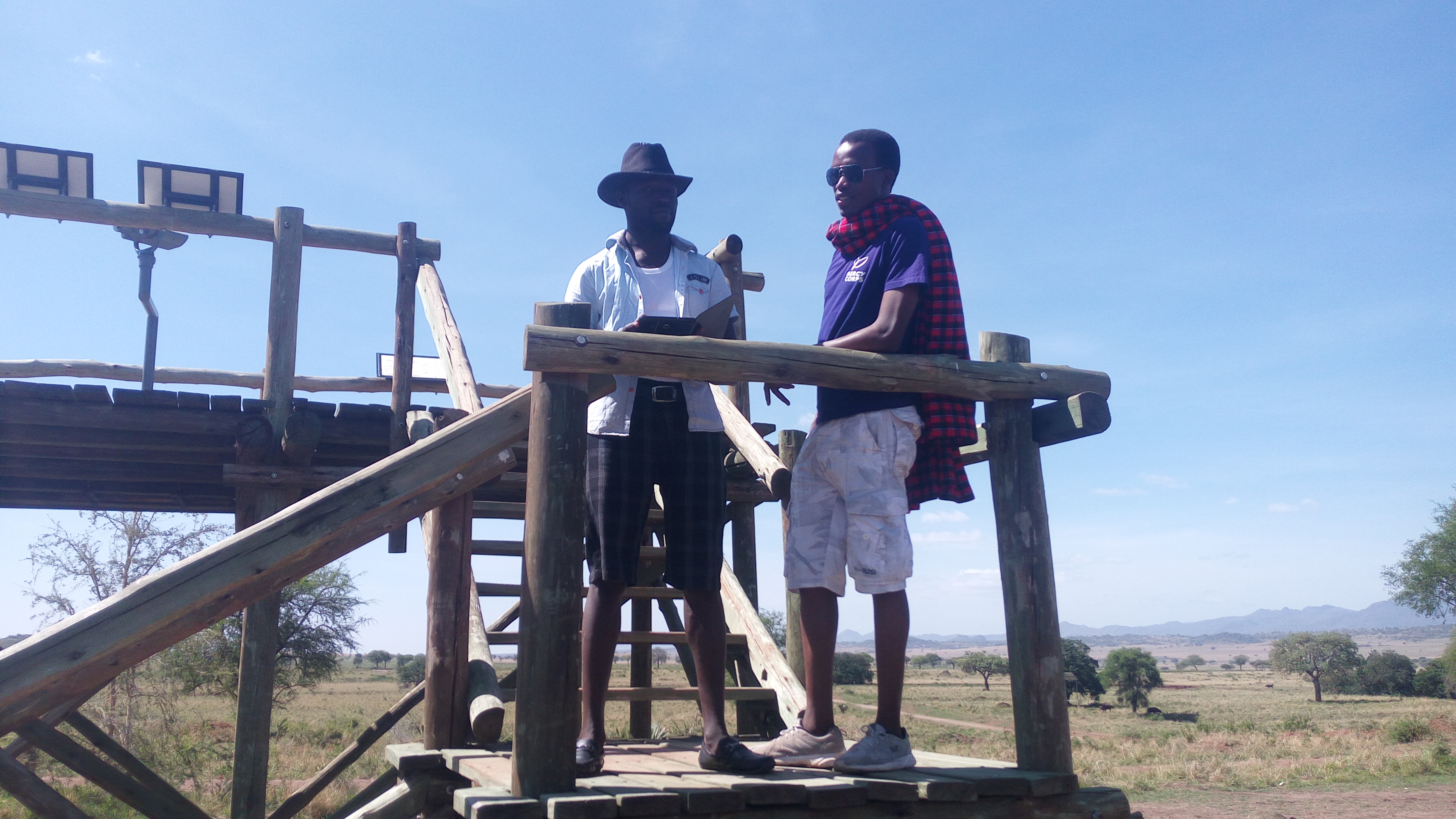 At Kidepo Valley National Park This is an image of "African people at work" from Uganda